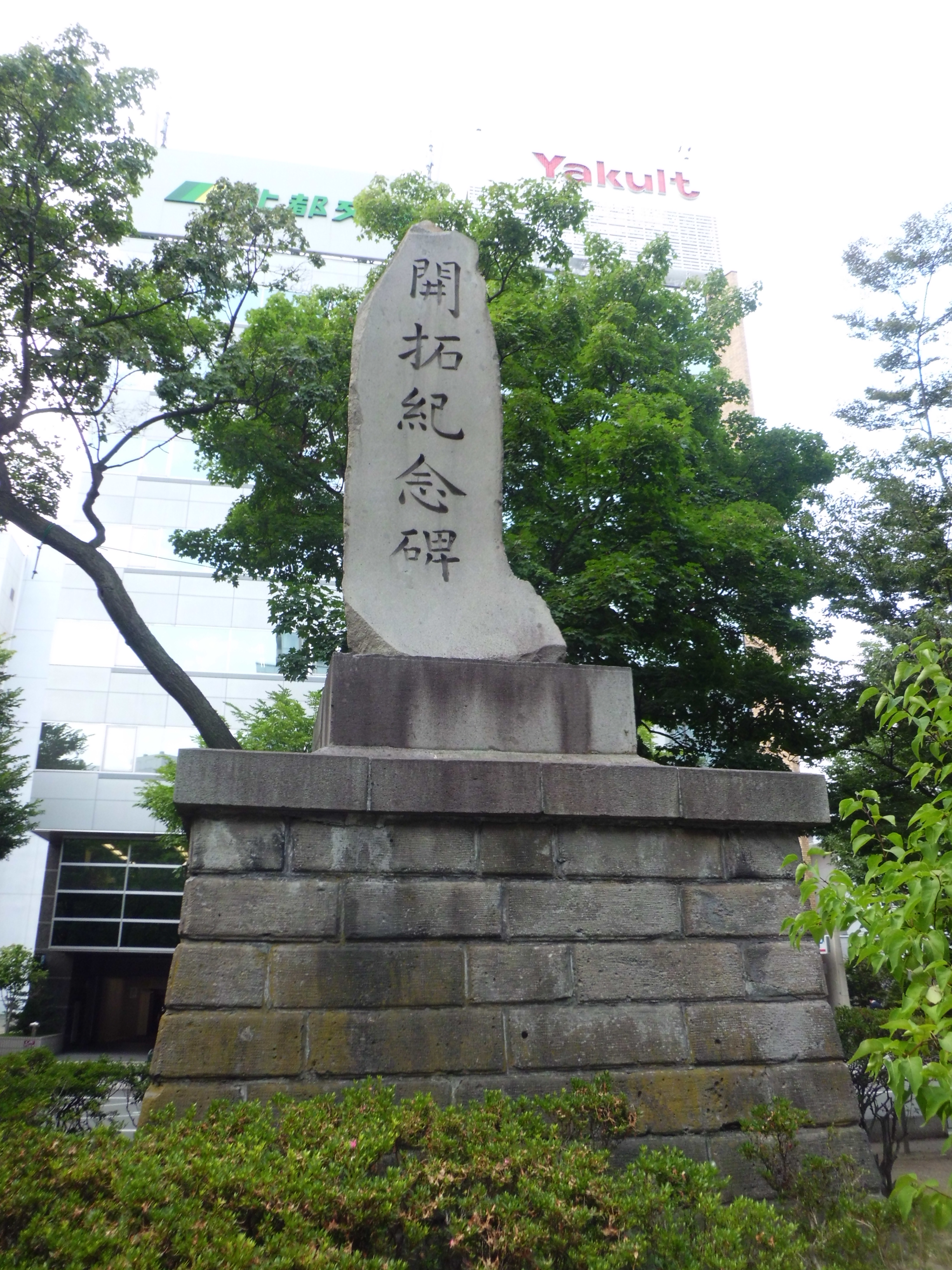 Monument to Development at Odori Park